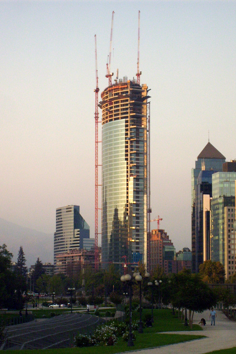 The construction of Titanium La Portada building in Providencia, Santiago de Chile. Photo taken on February 10, 2009, in Parque de las Esculturas.